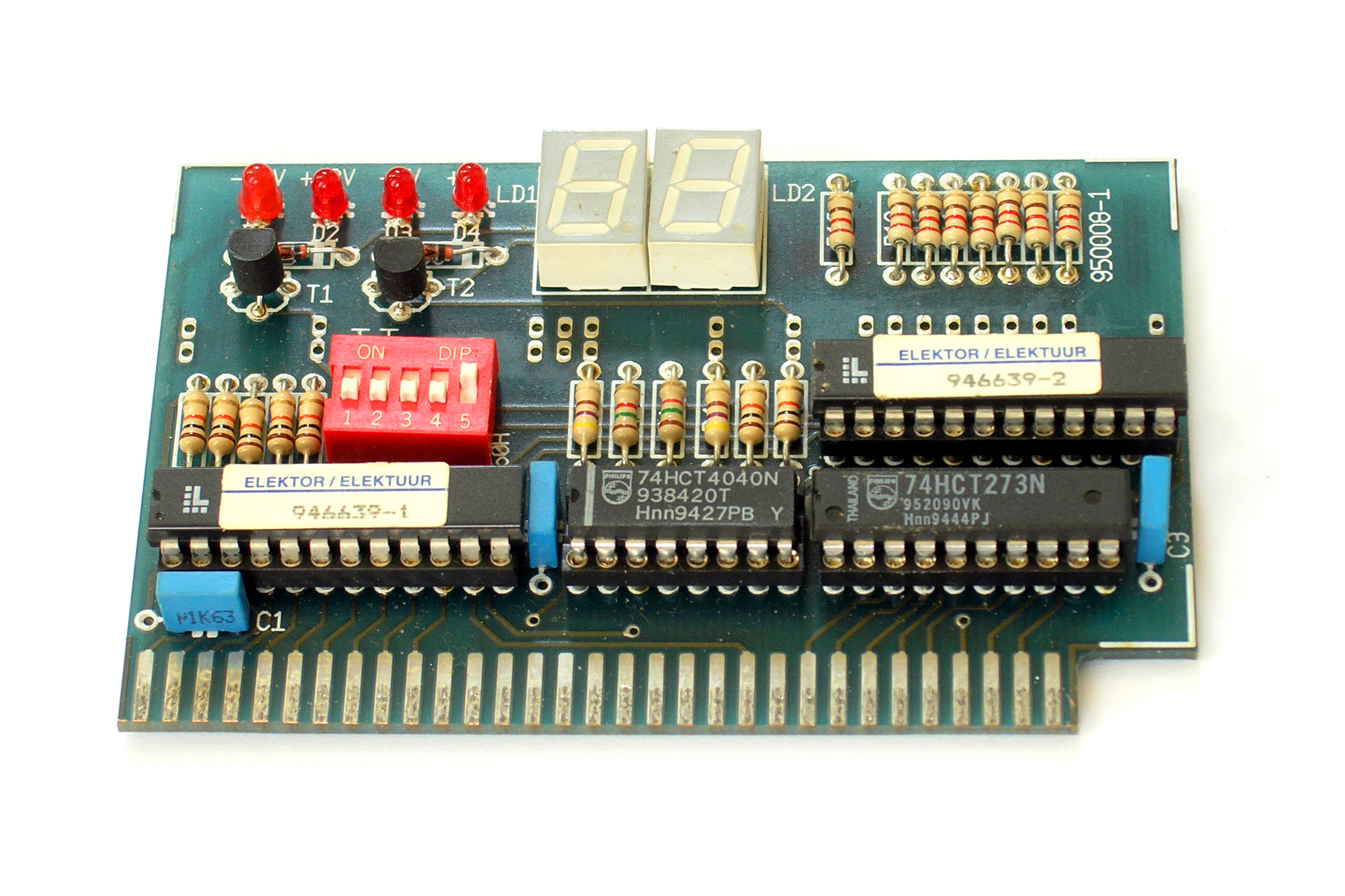 BIOS POST diagnostic card for ISA bus. (Elektor kit, January 1995.)